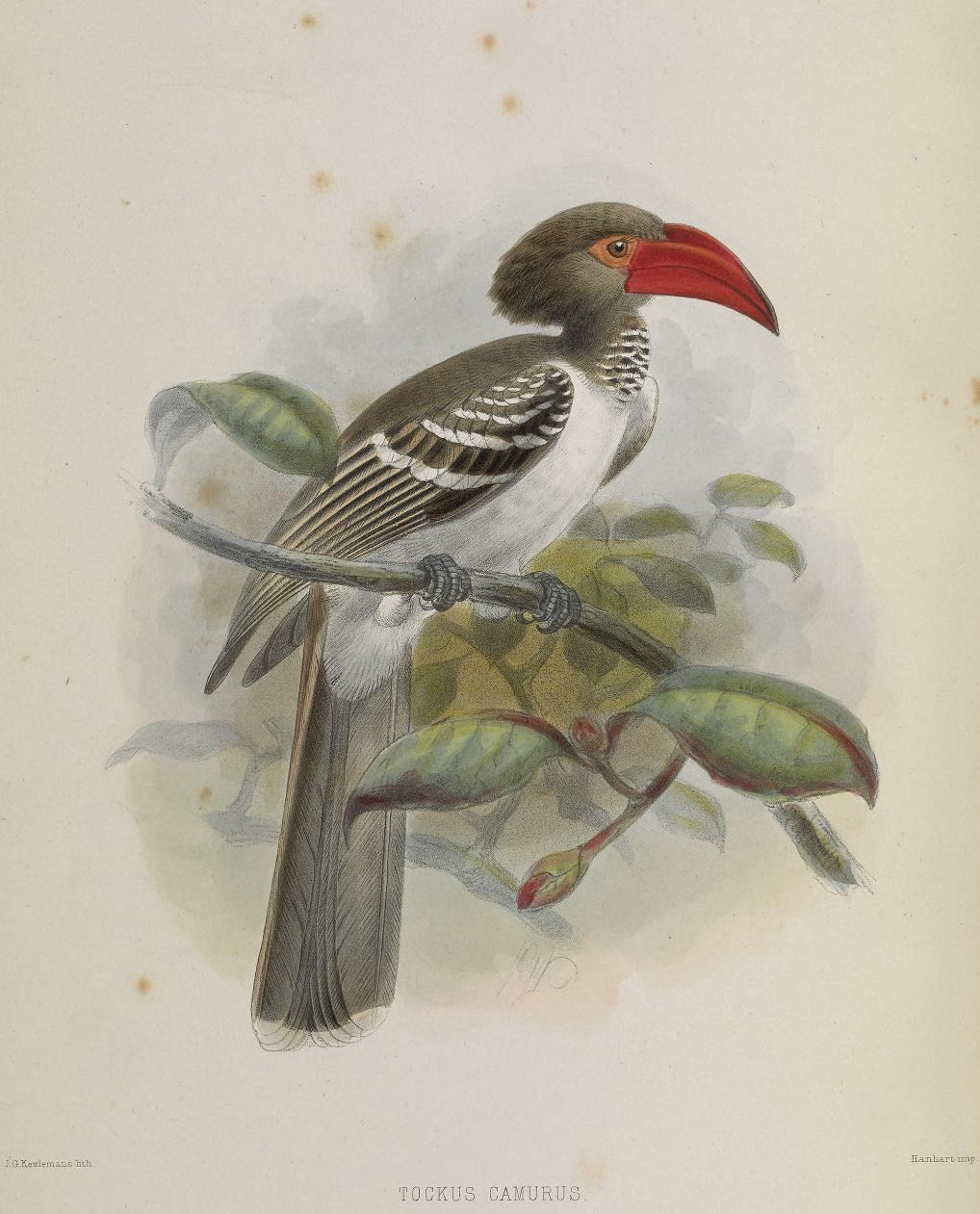 J.G.KeulemaiiS lith Hanhart imp . TOCKUS CAMURUS